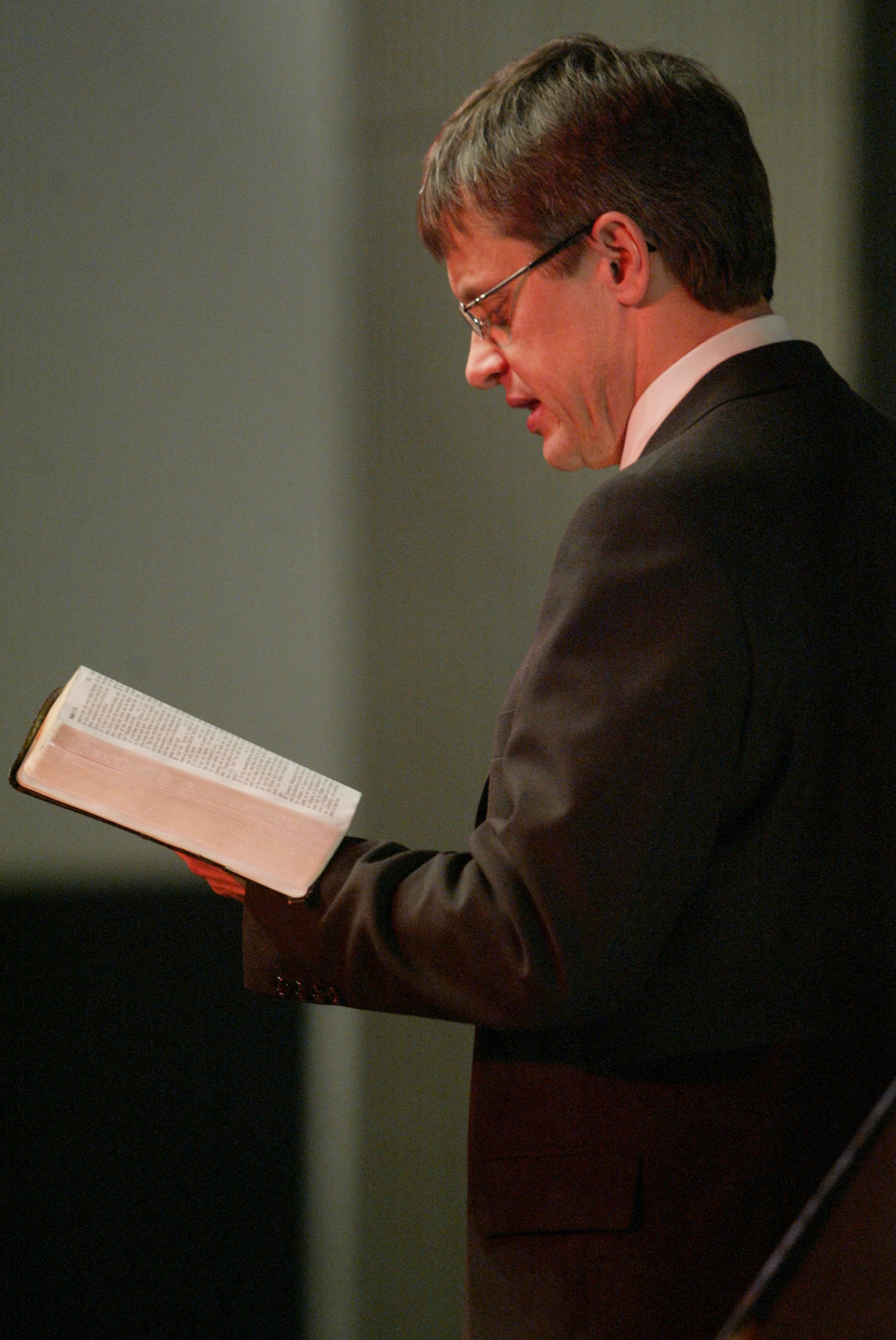 Pastor of the Moscow protestant pentecostal church Matts-Ola Ishoel during the church service. November 9, 2003. Christian "Youth'03" conference.